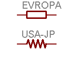 Scheme resistor symbol